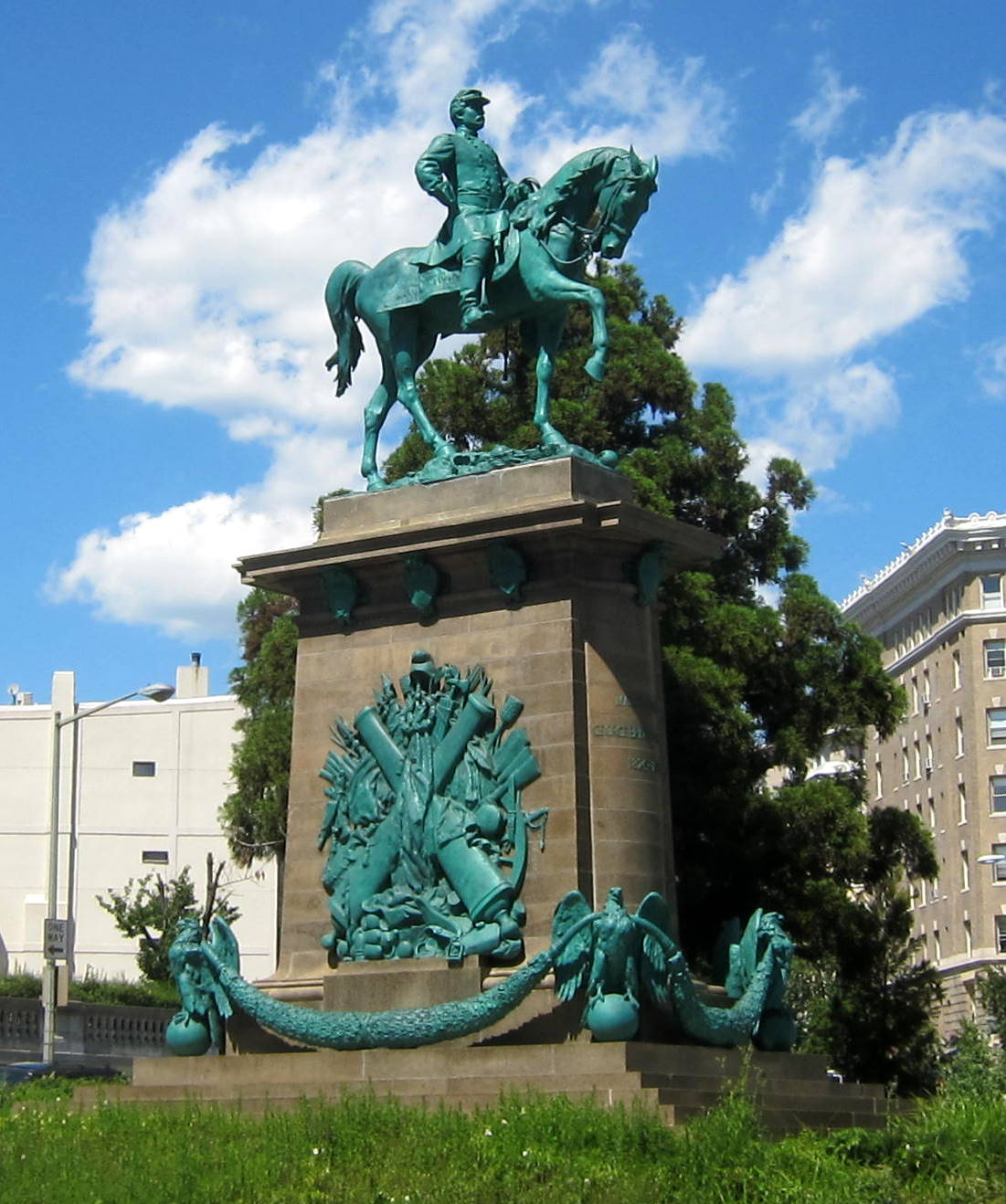 The Major General George B. McClellan monument in Washington, D.C.